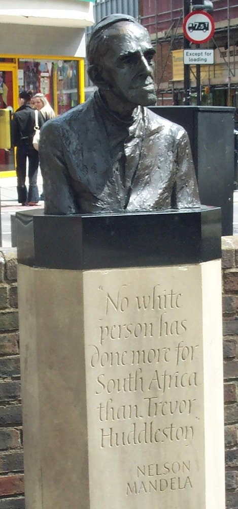 Statue of Archbishop Trevor Huddleston in Silver Street, Bedford. It was bought with subscriptions organised by the Trades Council and unveiled in 1999 by the Bishop of Bedford. Nelson Mandela came to the unveiling, but the authorities hushed this up beforehand so that it would not be a big event. The sculptor was Ian Walters.